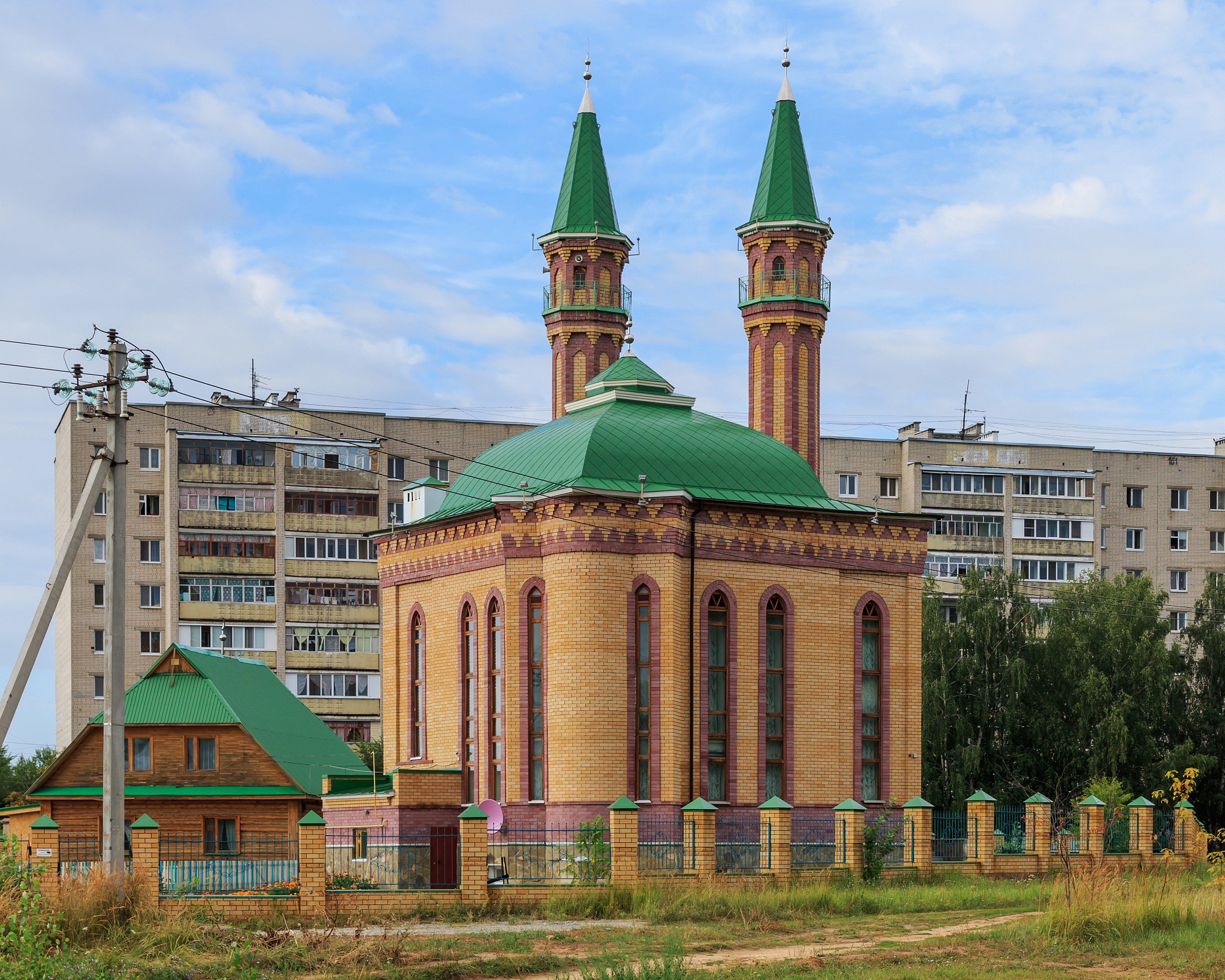 Tynychlyk Mosque in Zelenodolsk, Tatarstan, Russia